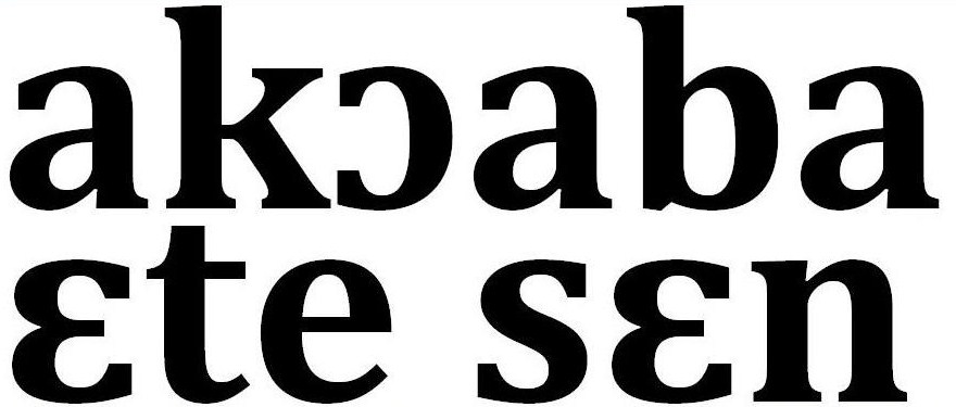 "akɔaba" (Welcome) and ɛte sɛn (How are you) in Akan. type-face: Akan alphabet